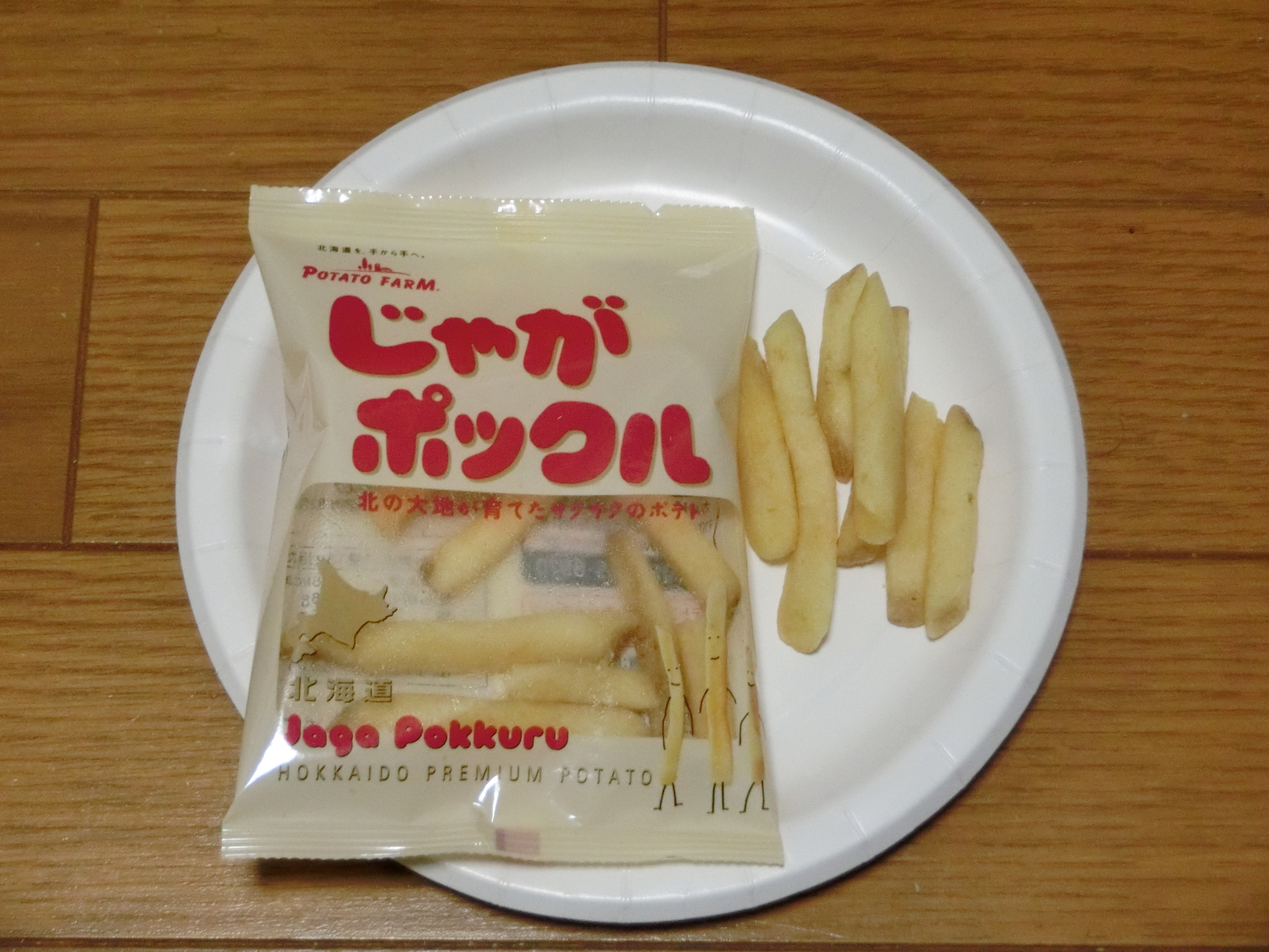 Jaga Pokkuru